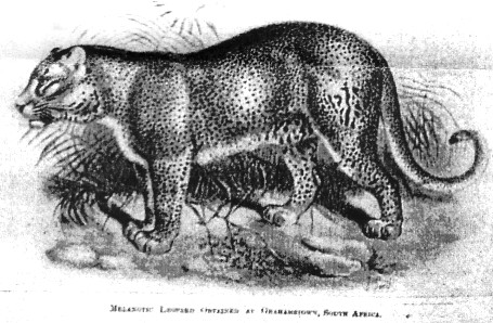 Pseudo-melanistic leopard, once posited as a leopard x cheetah hybrid